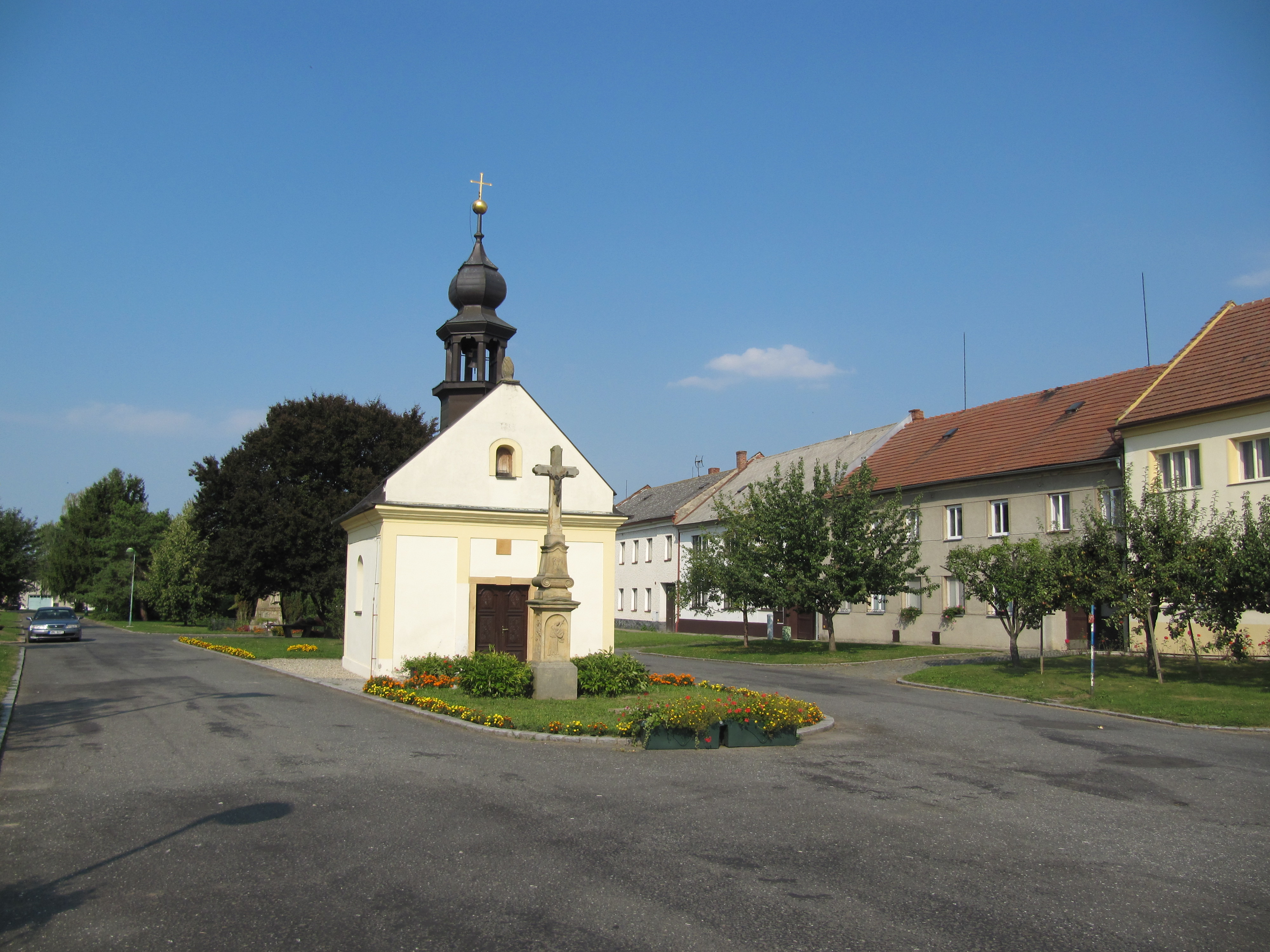 Těšetice in Olomouc District, Czech Republic, part Rataje. Chapel of the Visitation of the Virgin Mary and a listed crucifix.